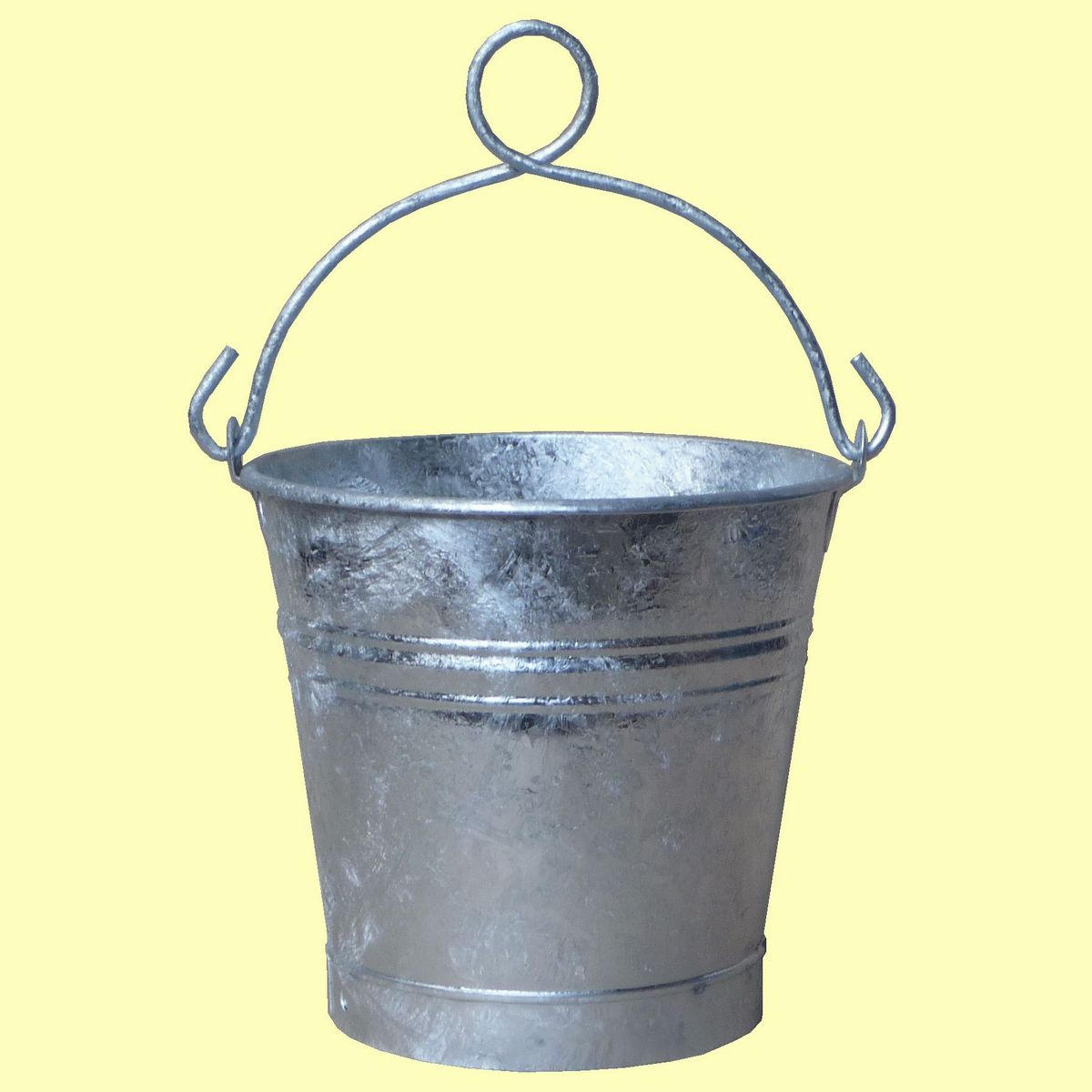 Hot dip galvanized bucket for wells or riverboats, manufacturing by Guillouard in Nantes